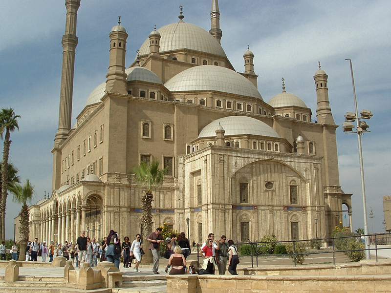 The Mosque of Muhammad Ali looking over Cairo. The largest mosque in Cairo also known the Alabaster Mosque or The Citadel Cairo Egypt.